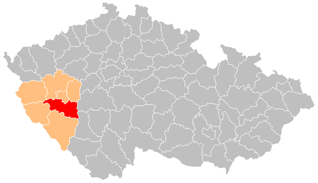 Plzeň-South District within Plzeň Region. Current borders of districts since January 1, 2007.